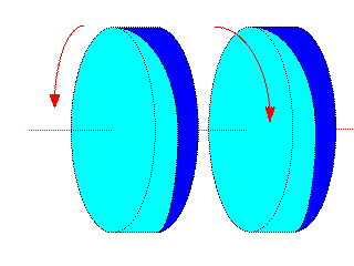 Atmospheric Dispersion Corrector consiting of amici prism for a telescope